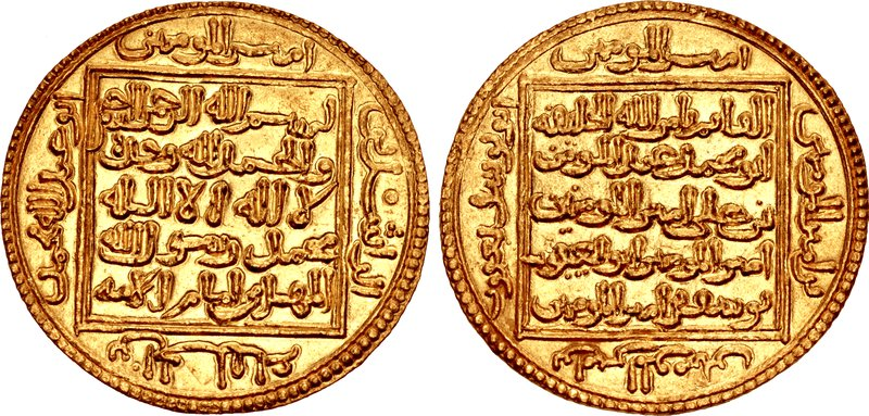 ISLAMIC, al-Maghreb (North Africa). Almohads (al-Muwahhidun). Abu 'Abd Allah Muhammad. AH 595-610 / AD 1199-1213. AV Dinar (30mm, 4.64 g, 12h). Unnamed mint. Undated issue. Hazard 506; Album 485; ICV 705. Choice EF, lustrous.